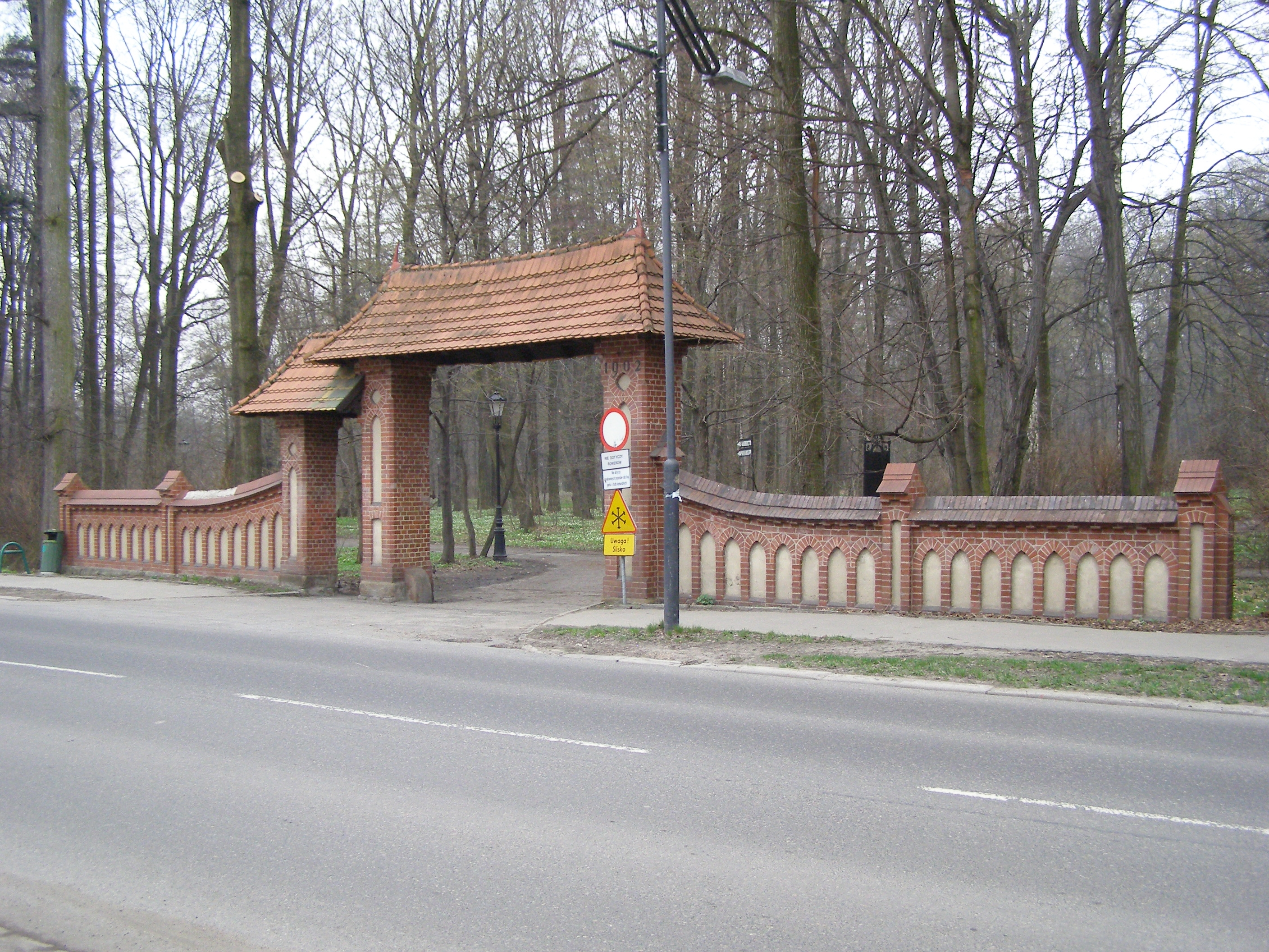 Pszczyna - The Chinese Gate